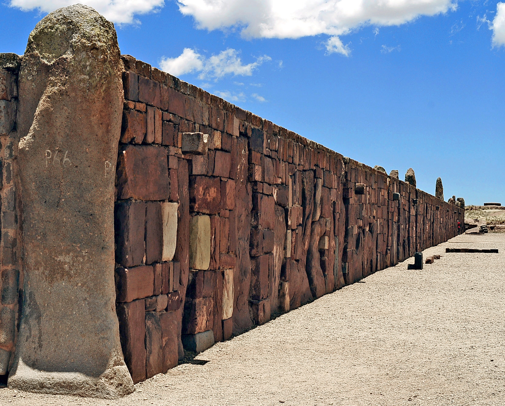 Outer wall of the "Kalasasaya" structure. Archaeological place of Tiwanaku, Ingavi, La Paz, Bolivia